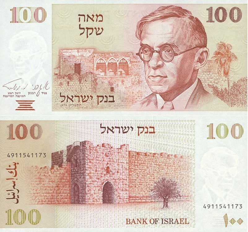 Obverse & Reverse side of a 100 sheqalim bill, paper.